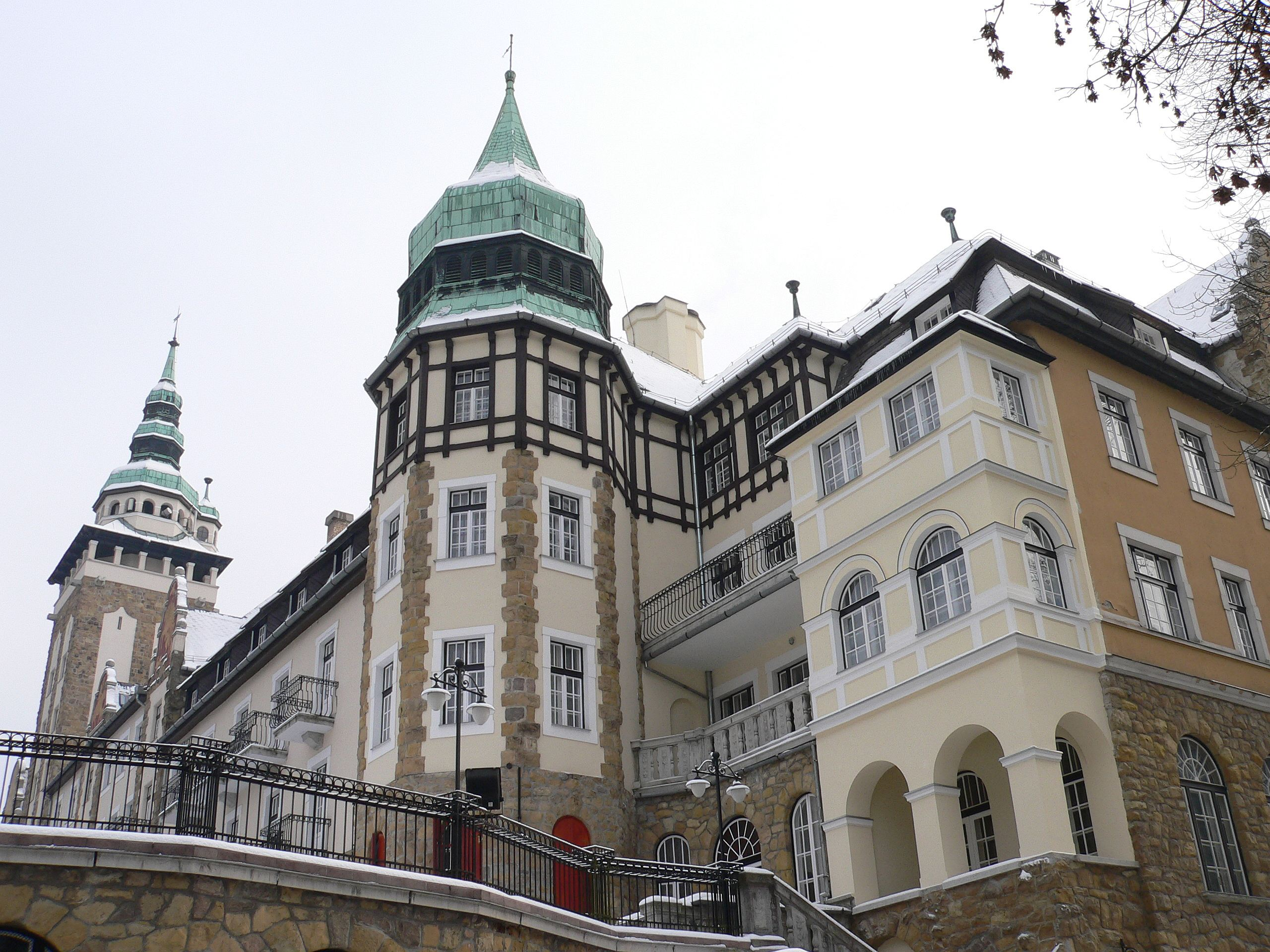 The western corner of the Palota hotel in Lillafüred, Hungary. Photo by József Dudás (Miskolc, 2006)